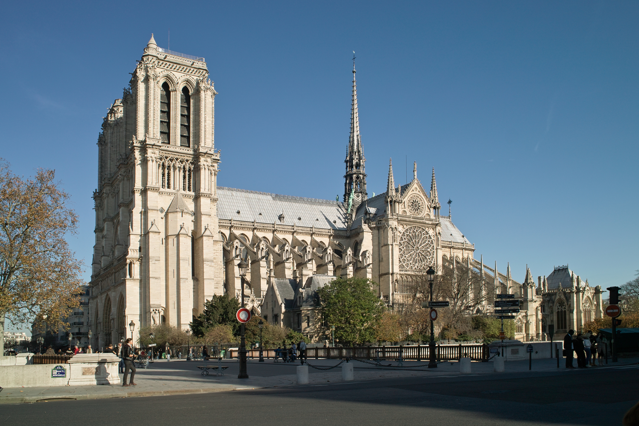 Cathédrale Notre-Dame de Paris, south front seen from Quai de la Tournelle